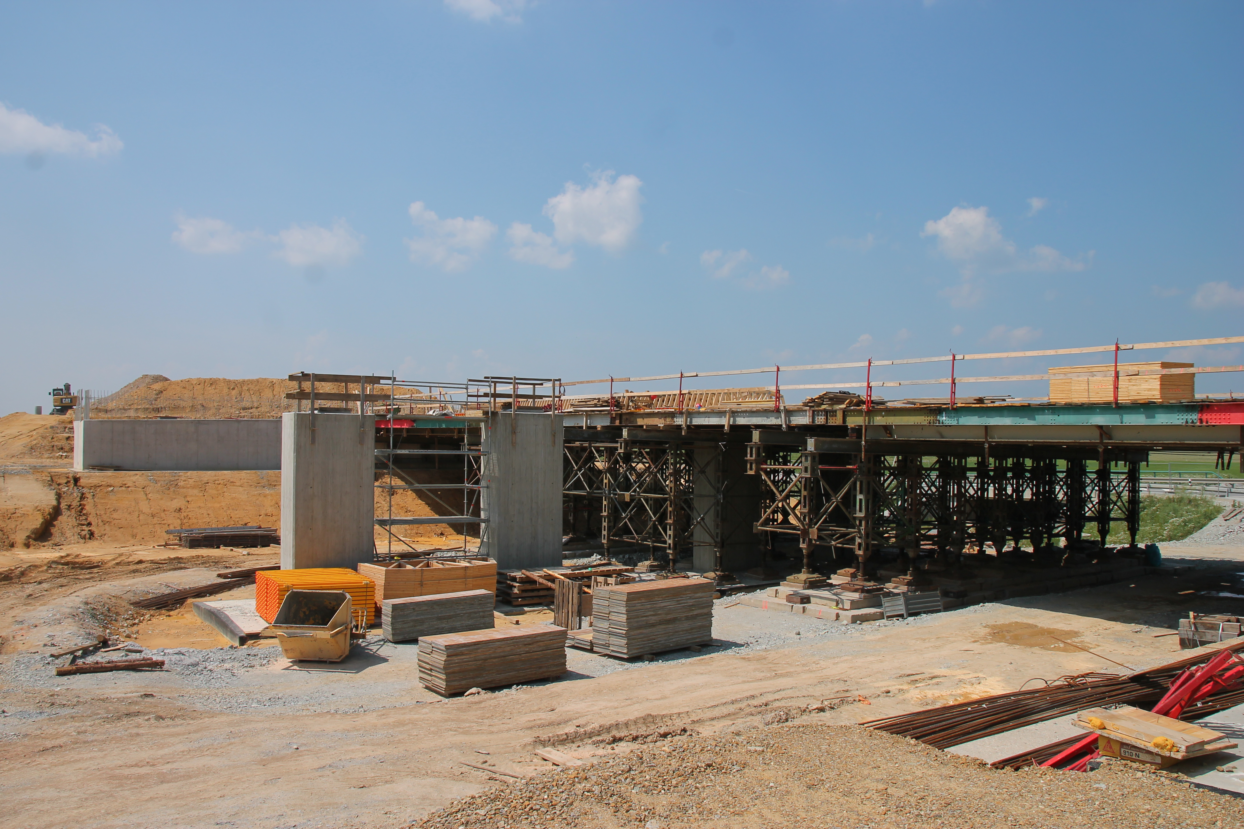 Construction of Highway D3 (section 0309/I), bridge near Dynín